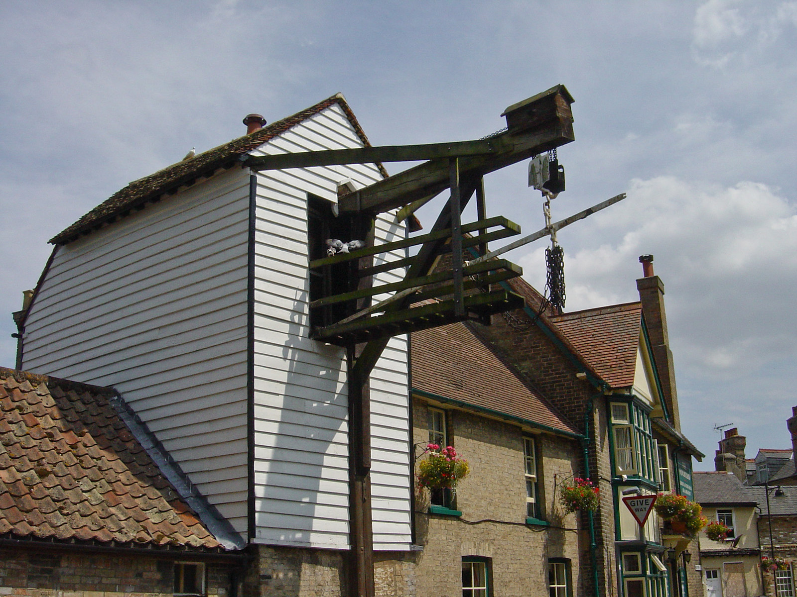 Grade II Listed Steelyard, Fountain Lane